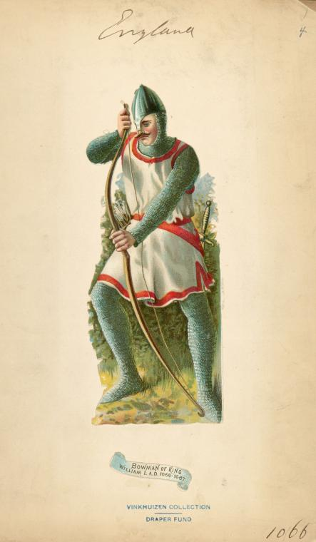 Bowmen of King William in 1066. Drawing from Vinkhuijzen Collection of Military Costume Illustration.